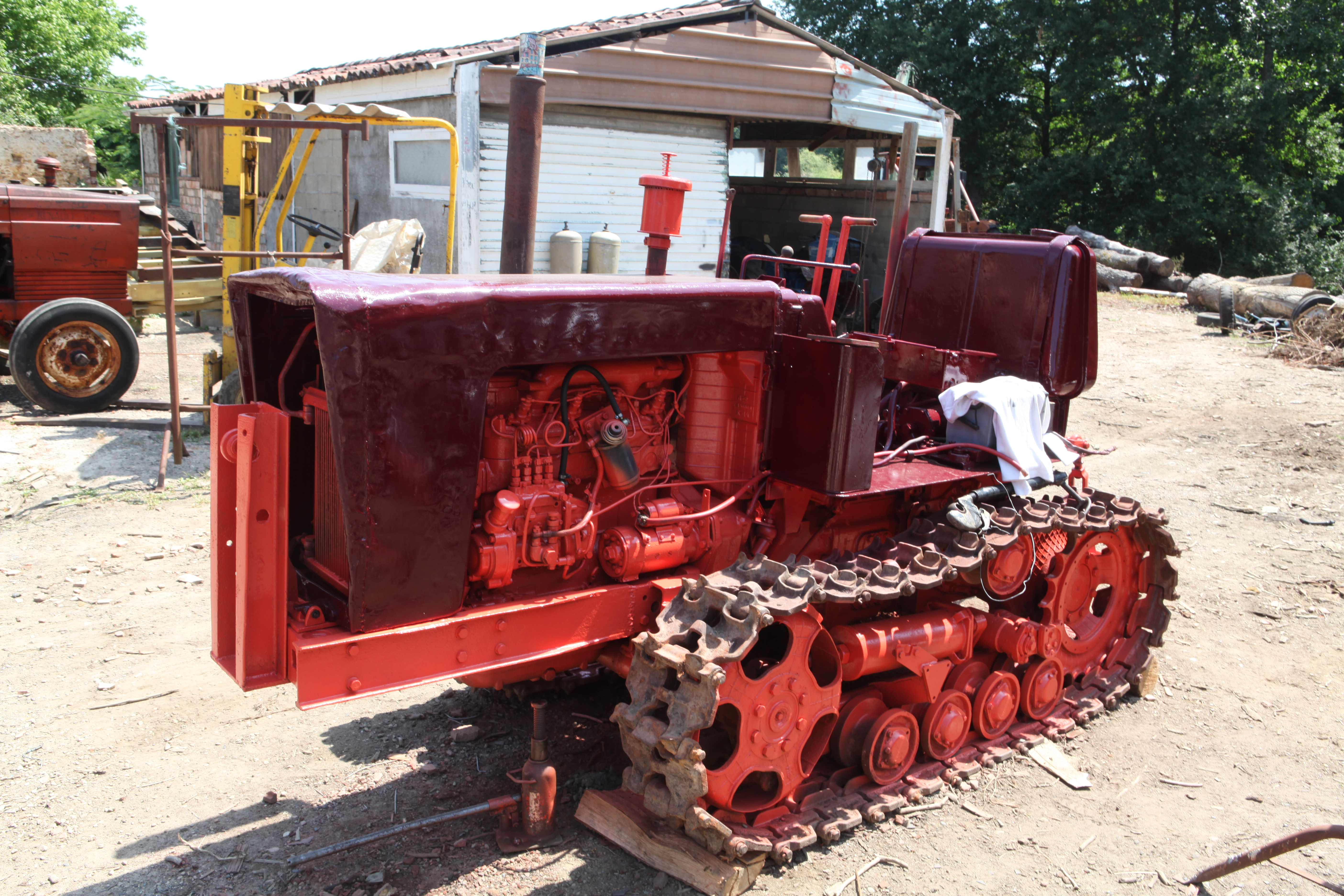 Unknown type crawler tractor